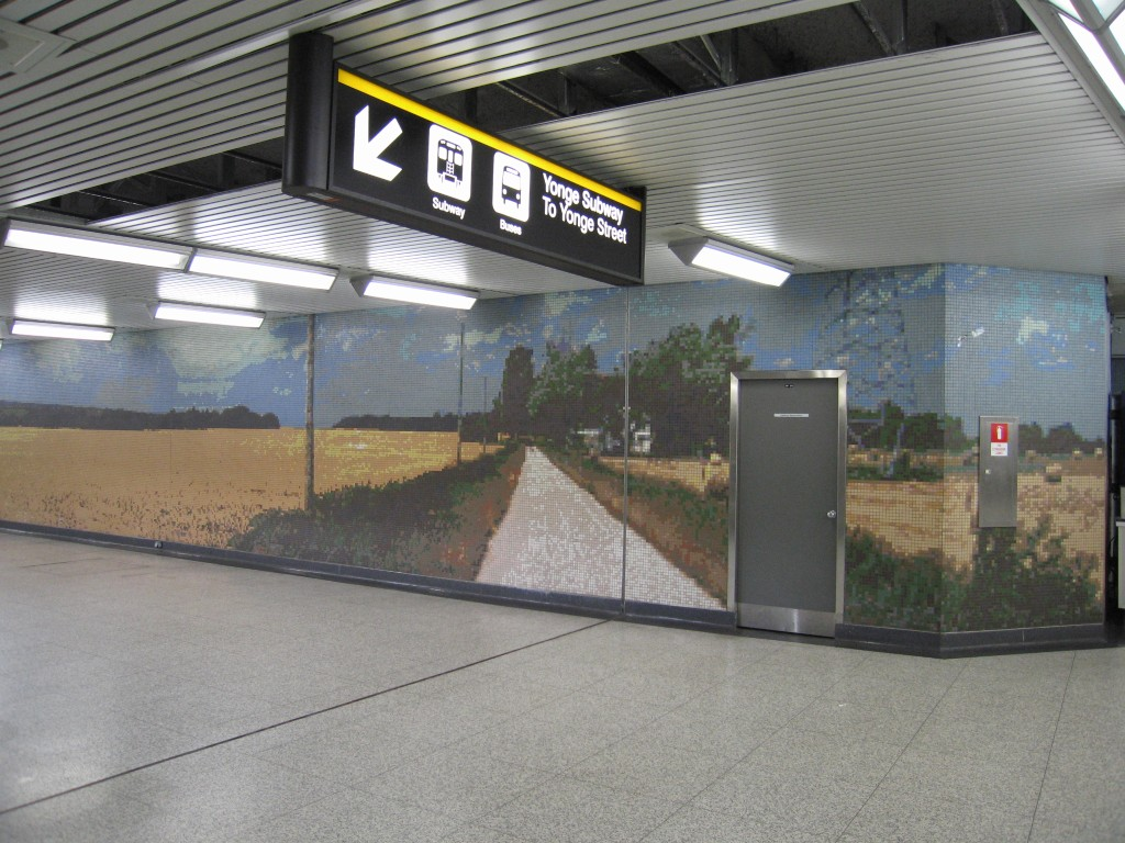 Sheppard-Yonge Station tile art. Very pixelated and dithered.